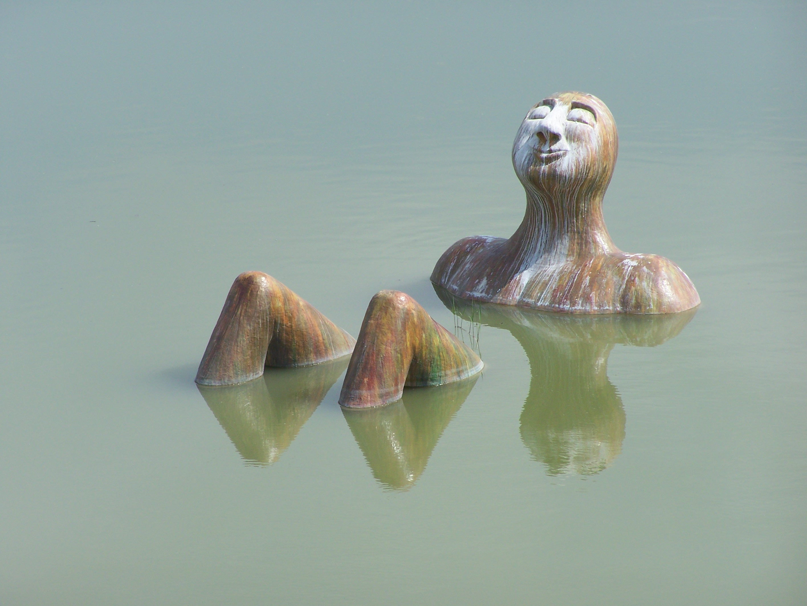 The floating Hombre Río in the Guadalquivir, Córdoba, Spain.